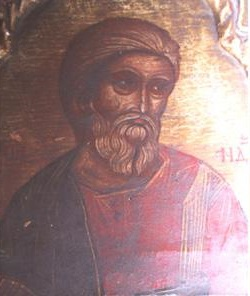 Seslavtsi Monastery Fresco